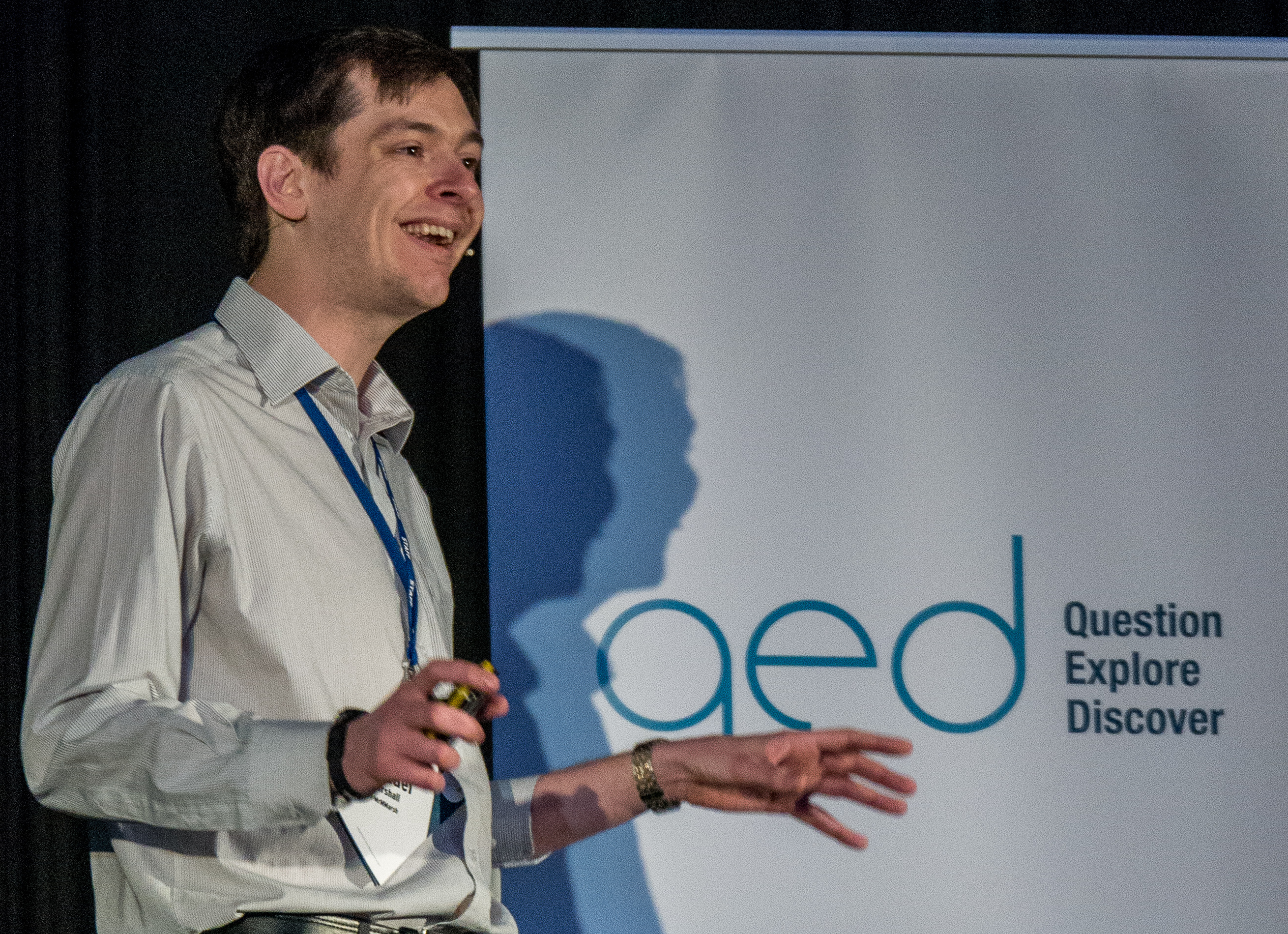 QEDCon Day One-75 QEDCon 2015